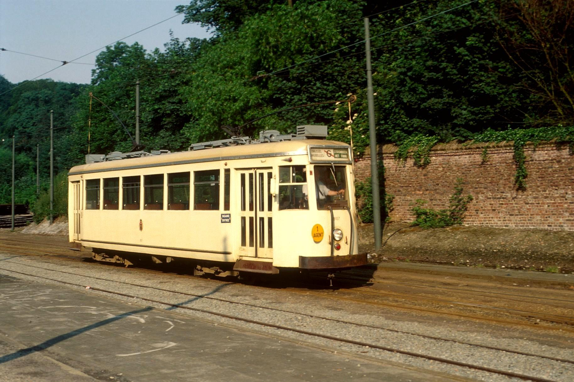 Keywords : SNCV, vicinal railways, rail, tram, electric motor car, type "S", Heysel, Brussels, Belgium